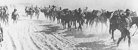 British soldiers and animal transports advancing through the desert in 1916, probably during the Aylmer's relief expedition to save the garrison at Kut.